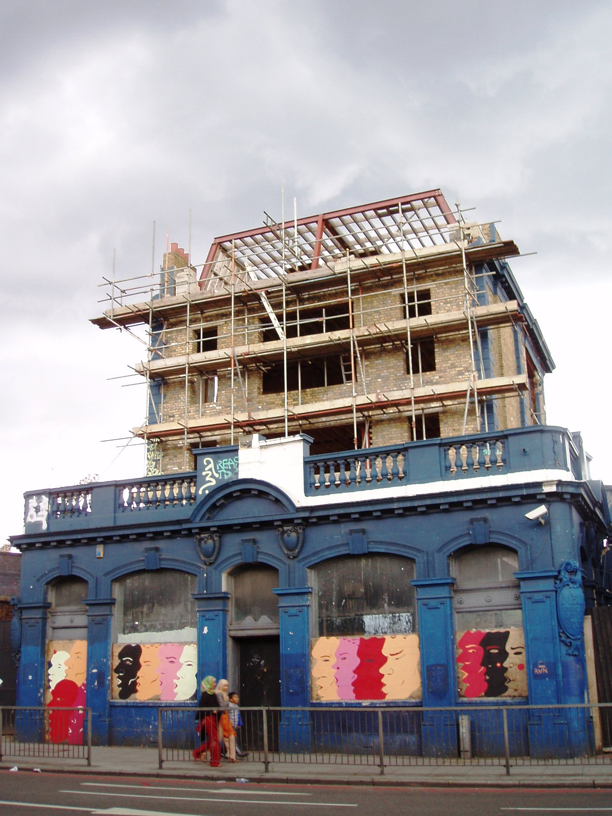 A pub and former live venue by Finsbury Park station (opposite the Rainbow Theatre), now quite obviously closed. Address: 240 Seven Sisters Road. Former Name(s): The Clarence Tavern. Owner: Mean Fiddler (former). Links: Pubs History (history)